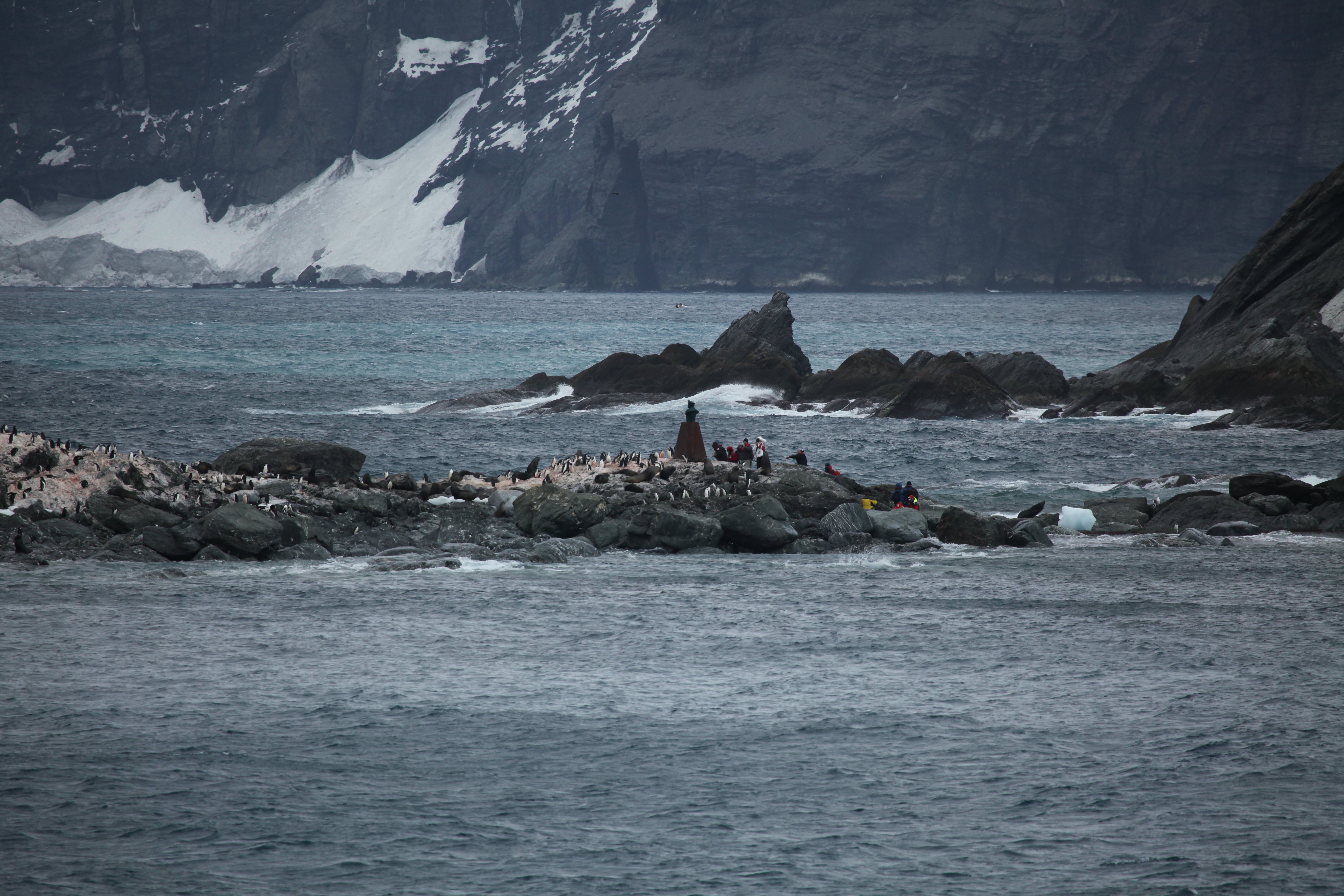 Tourists make a rare landing at Point Wild and photograph the monument to Piloto Pardo, commander of the Chilean navy ship that rescued Shackleton's men from Point Wild in 1916. In the South Shetland Islands, Antarctica.